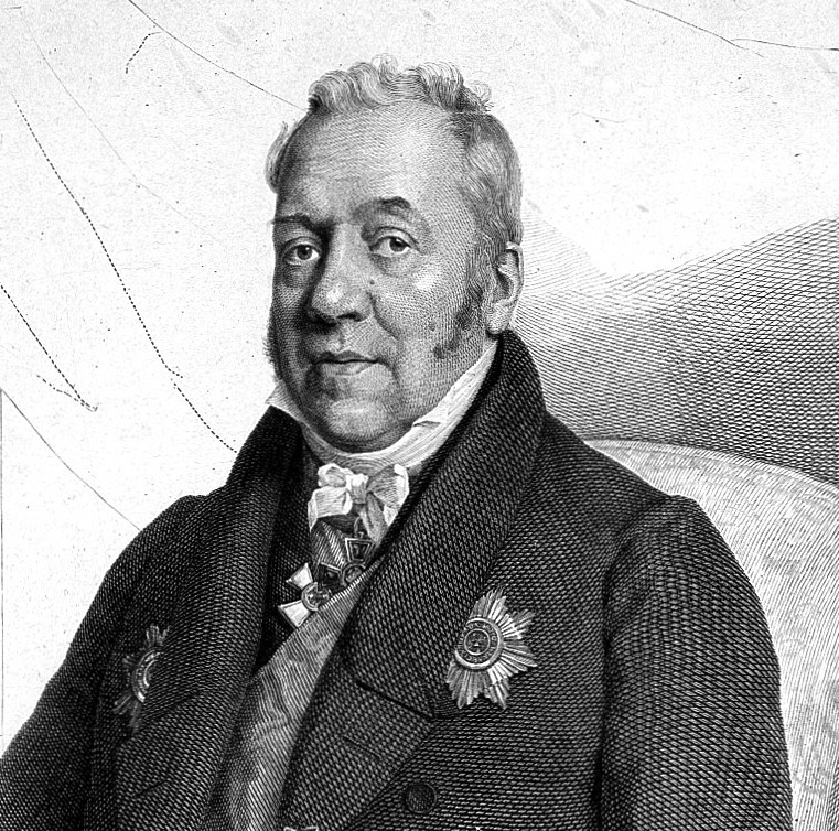 Sir James Boniface Leighton. Line engraving by Ymkurw after Day. Iconographic Collections Keywords: James Boniface Leighton